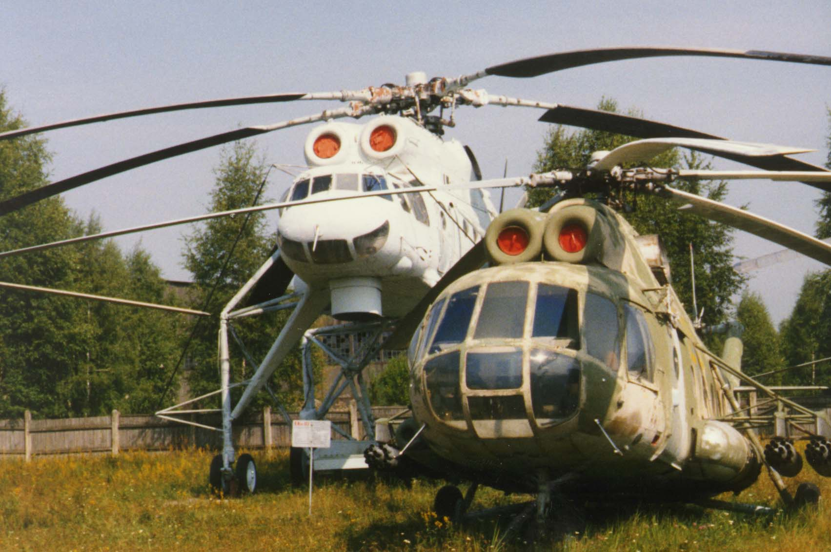 Helicopters Mil Mi-10 (left) and Mil Mi-8 (armed with UB-16 rocket pods for S-5 57 mm rockets)